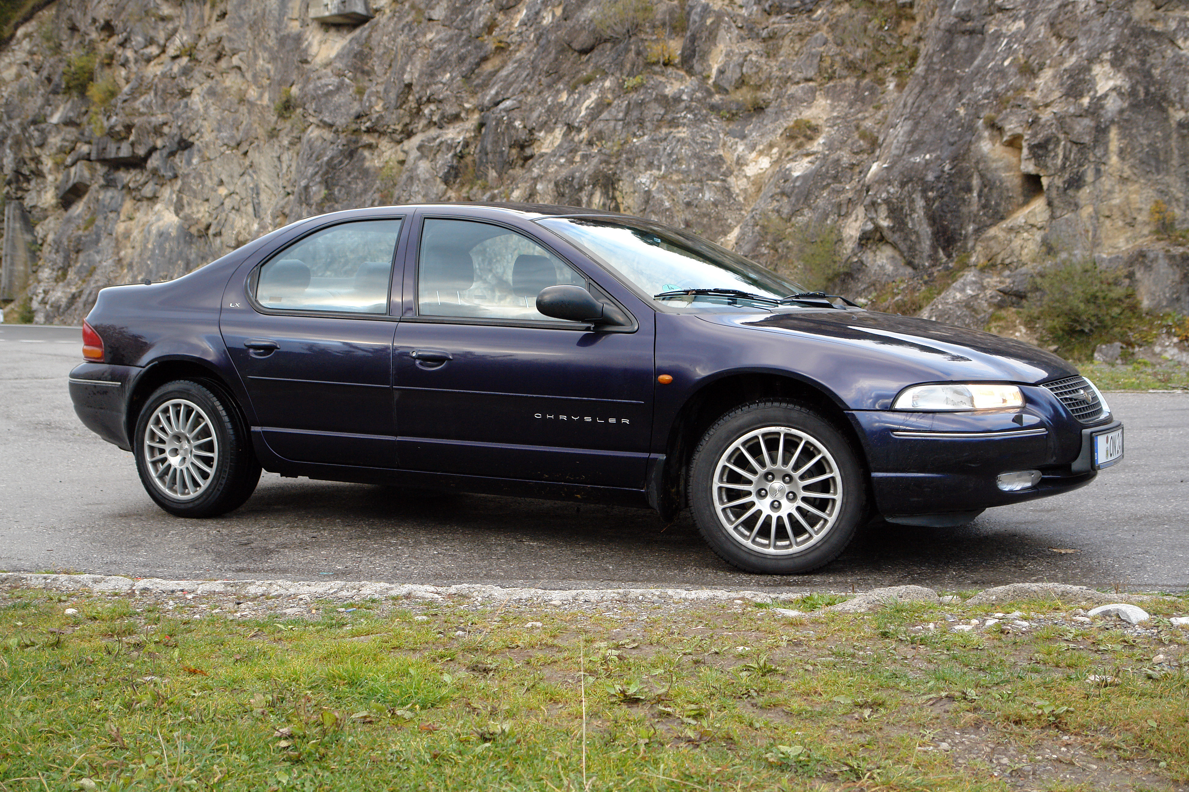 Chrysler Stratus Sedan '99